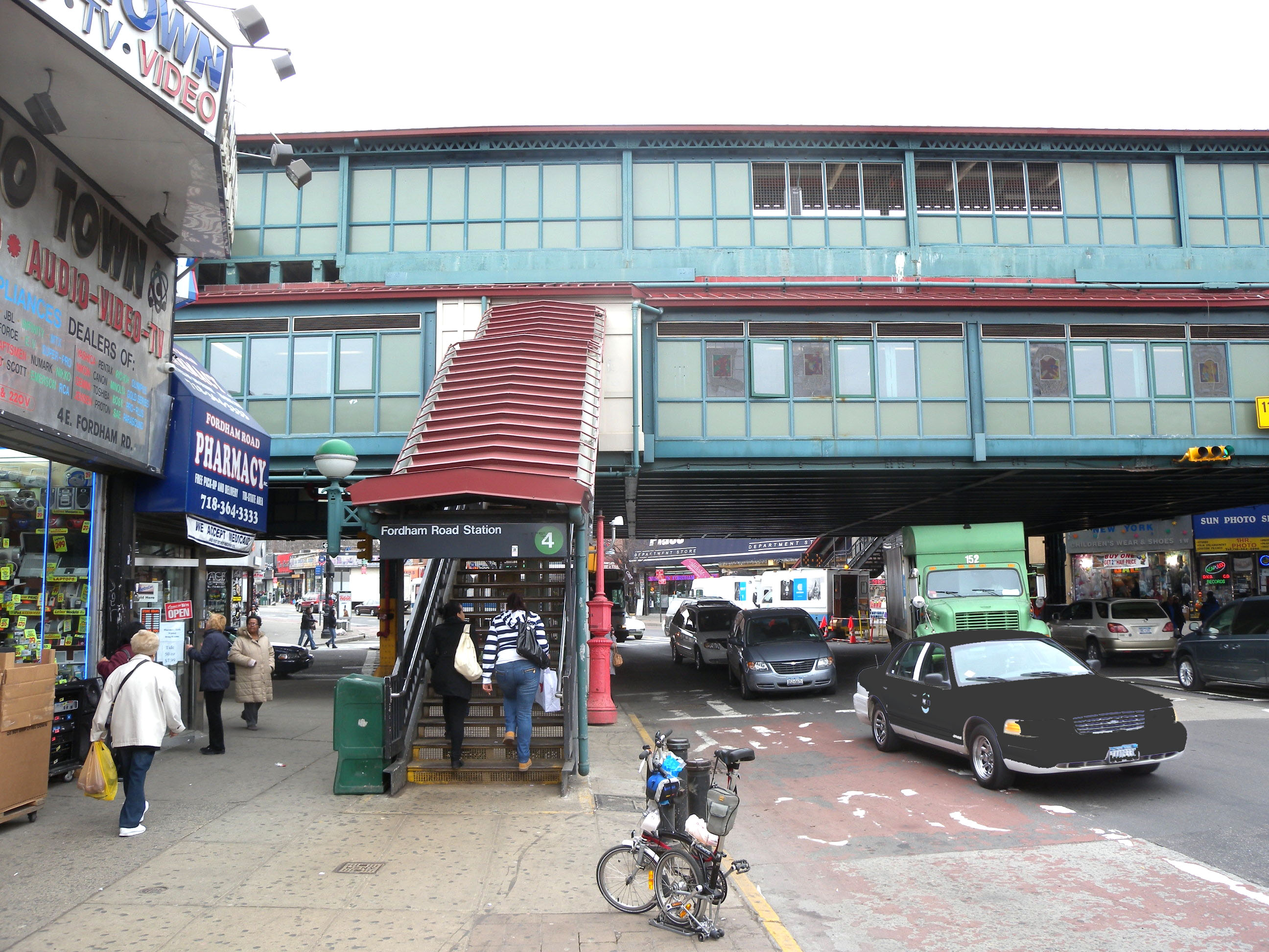 Looking west on East Fordham Road at IRT station on a cloudy midday. EXIF was set in error on Grand Concourse station. Bike is photographer's.